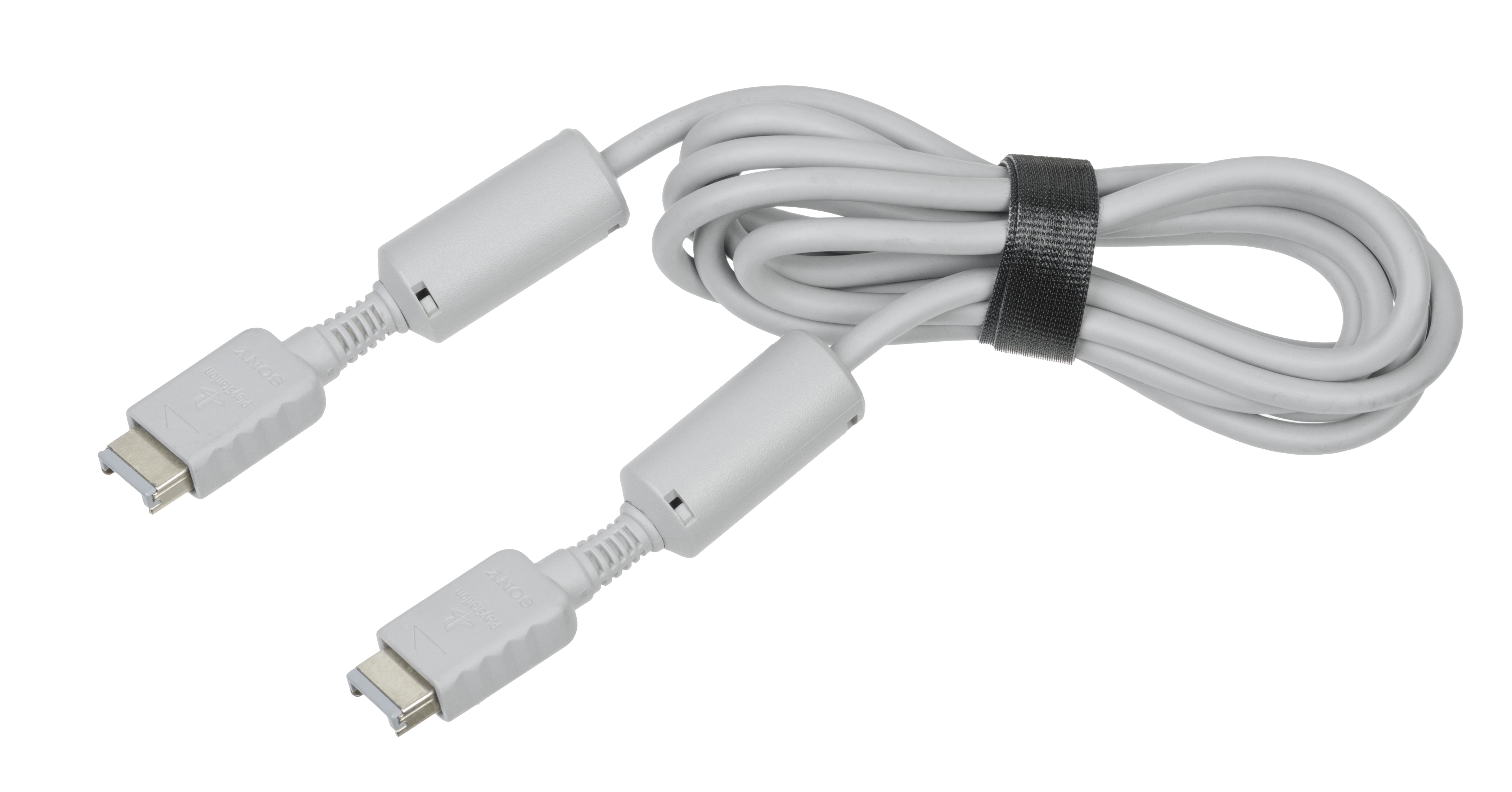 The Link Cables (SCPH-1040) for the Sony PlayStation video game console. These cables used the serial I/O port on early PlayStation models to connect two consoles directly, which offered multiplayer support on a small selection of compatible games.